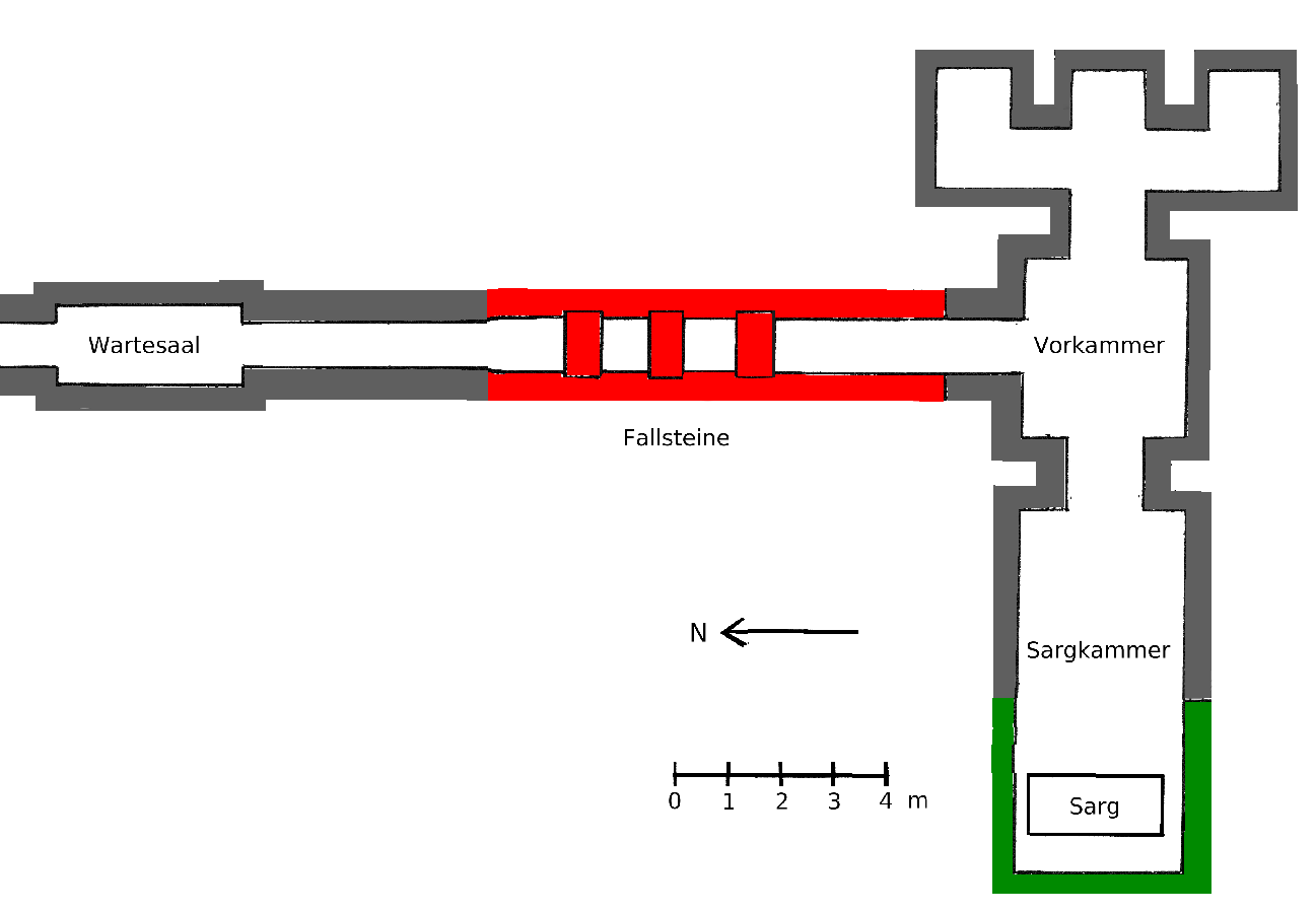 Pyramid of king Unas (grey: limestone; red: granite; green: alabaster)